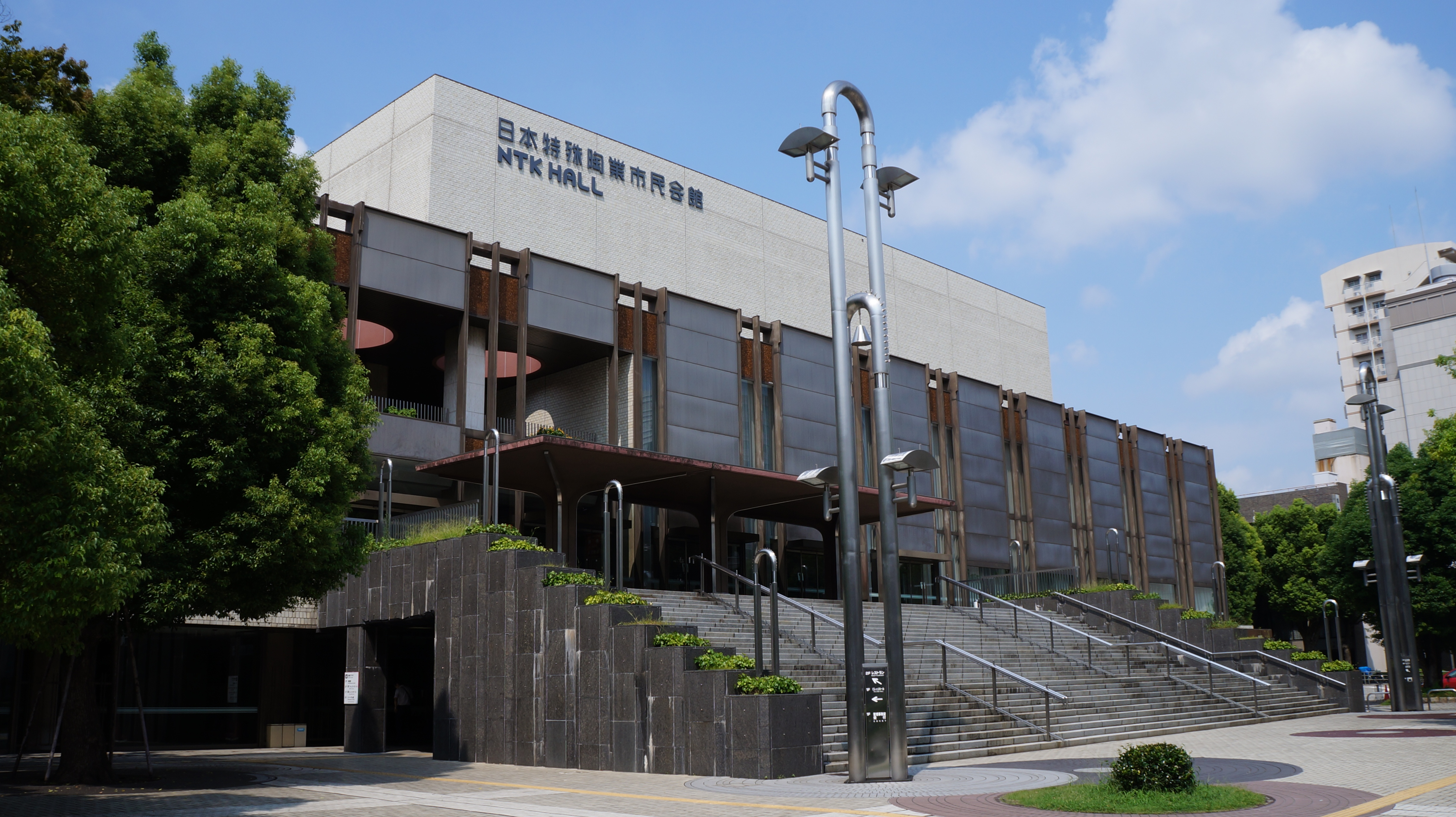 NTK Hall in Nagoya City, Japan.